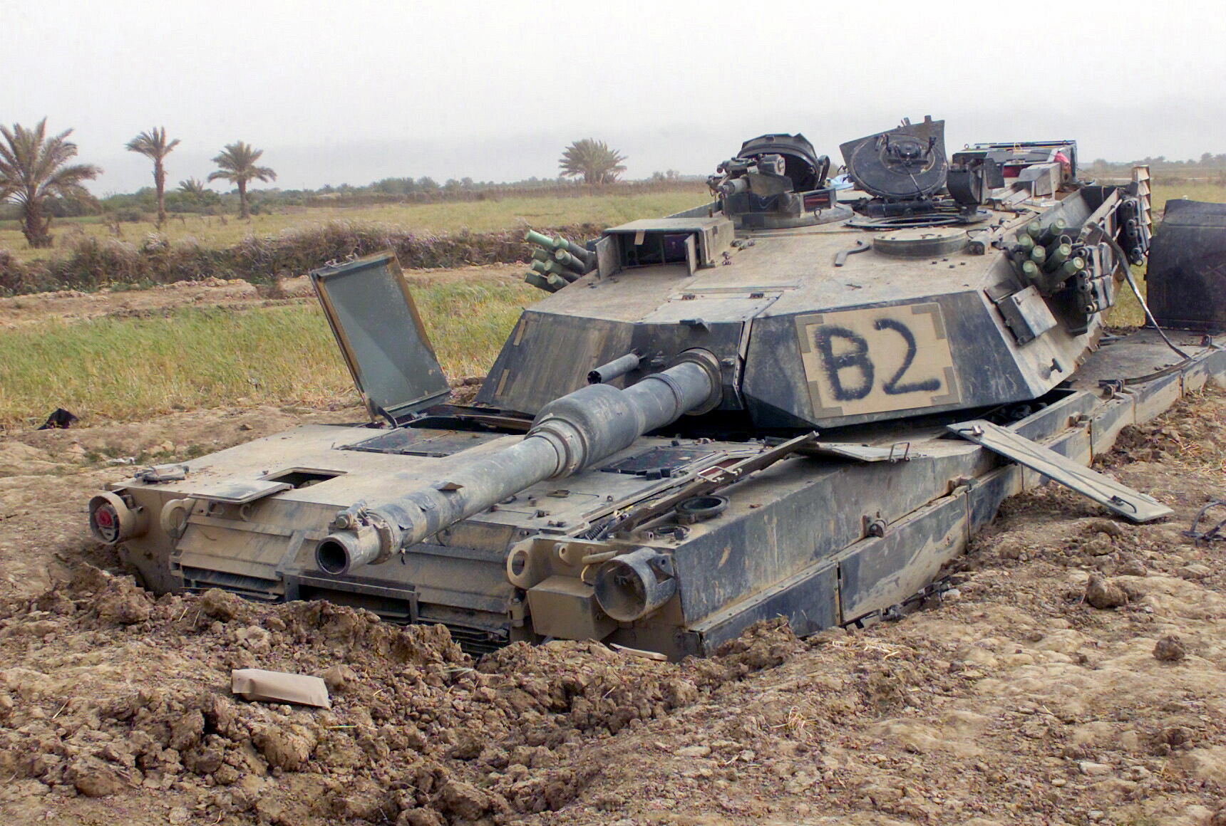 A destroyed Abrams M1A1 Main Battle Tank (MBT), Bravo Company (B CO), 2nd Tank Battalion (TKBN), near Sayyid Abd, Iraq during Operation IRAQI FREEDOM.